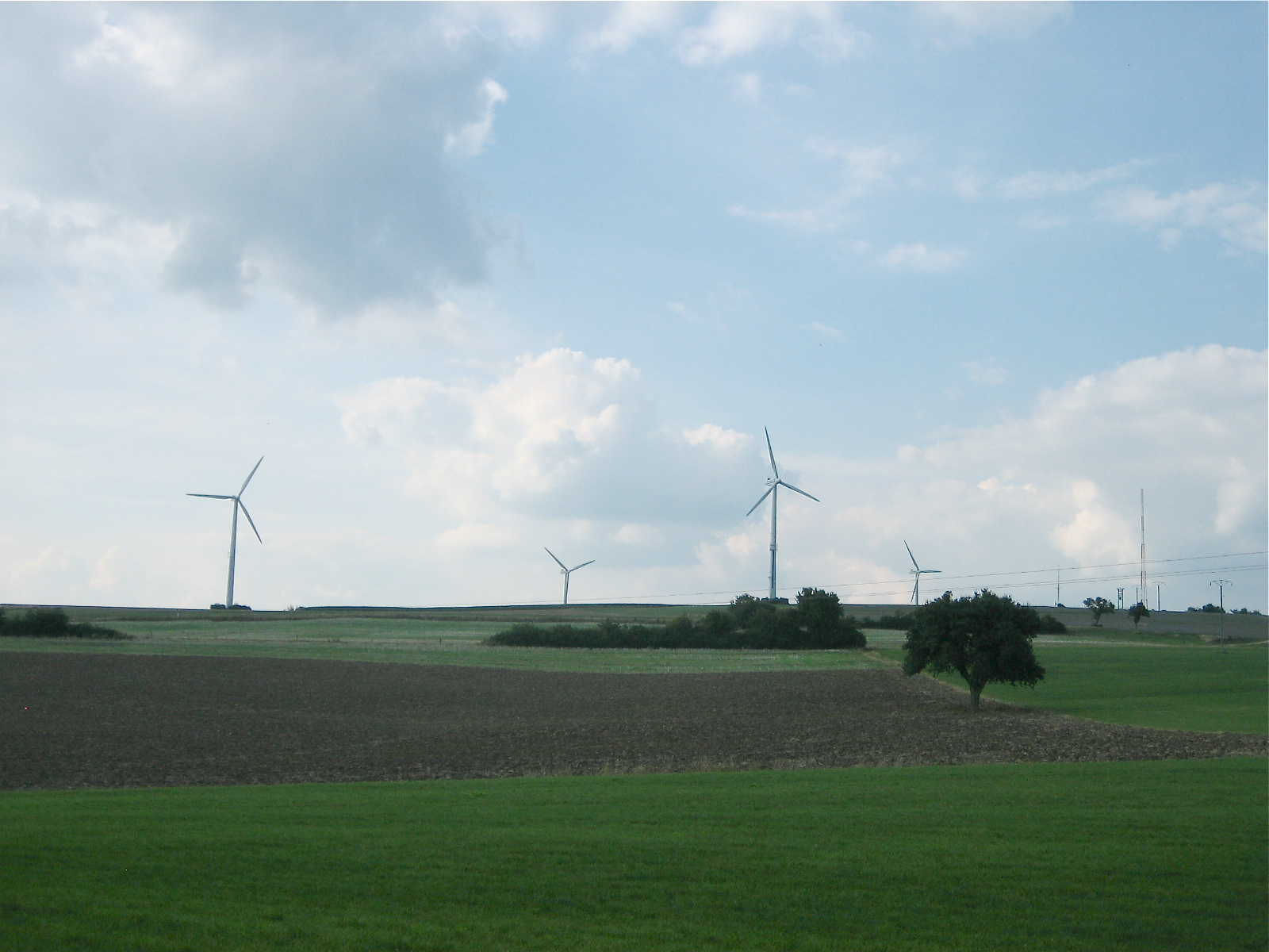 Wind turbins on Pafebierg near Mompach, Luxembourg. They were the first wind turbines to be erected in the country.